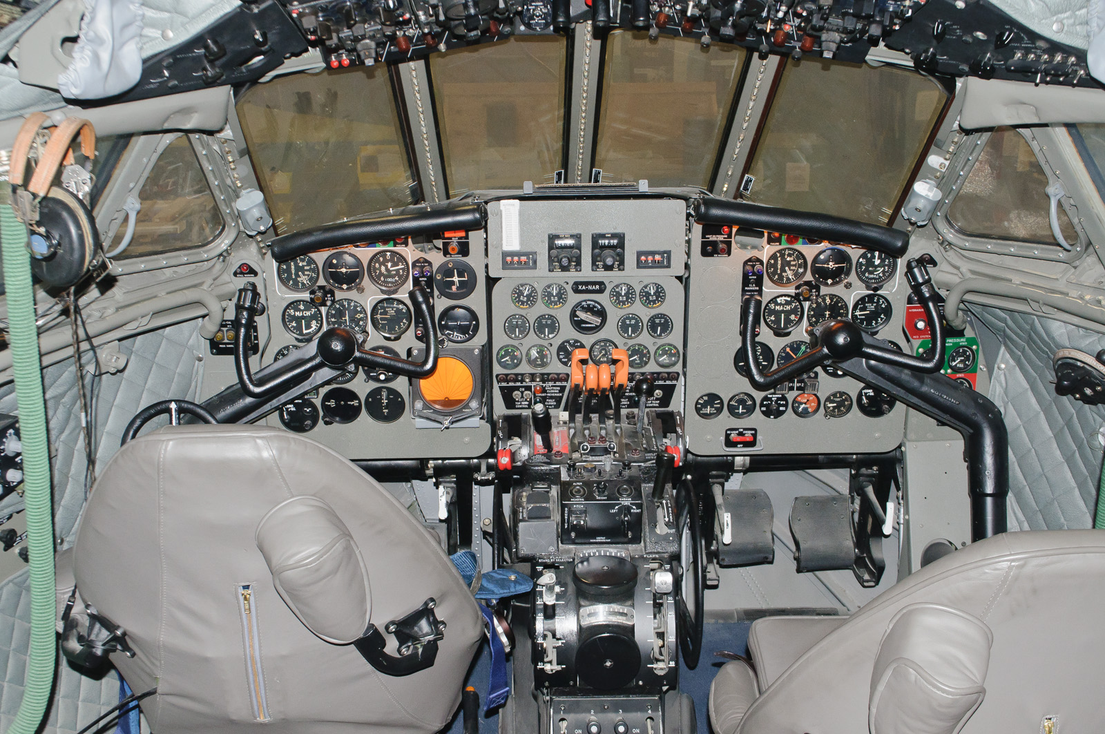 The de Havilland Comet was the first jet-powered airliner to take to the skies, though due to infamous inflight breakups early in its career (caused by square windows causing premature metal fatigue), it developed a bad reputation and sold poorly. This is the first Comet that I am ever getting to see in person. This particular example was the very first example of the ultimate Comet, the 4C. It was Mexicana's first jet aircraft, entering service on the Mexico City - Los Angeles route in 1960 and flying until 1972. Initially destined for charter use, it ended up at Paine Field in Everett in the late 1970s and sat abandoned until 1995, when Museum of Flight took ownership and has been restoring it ever since. Cockpit.